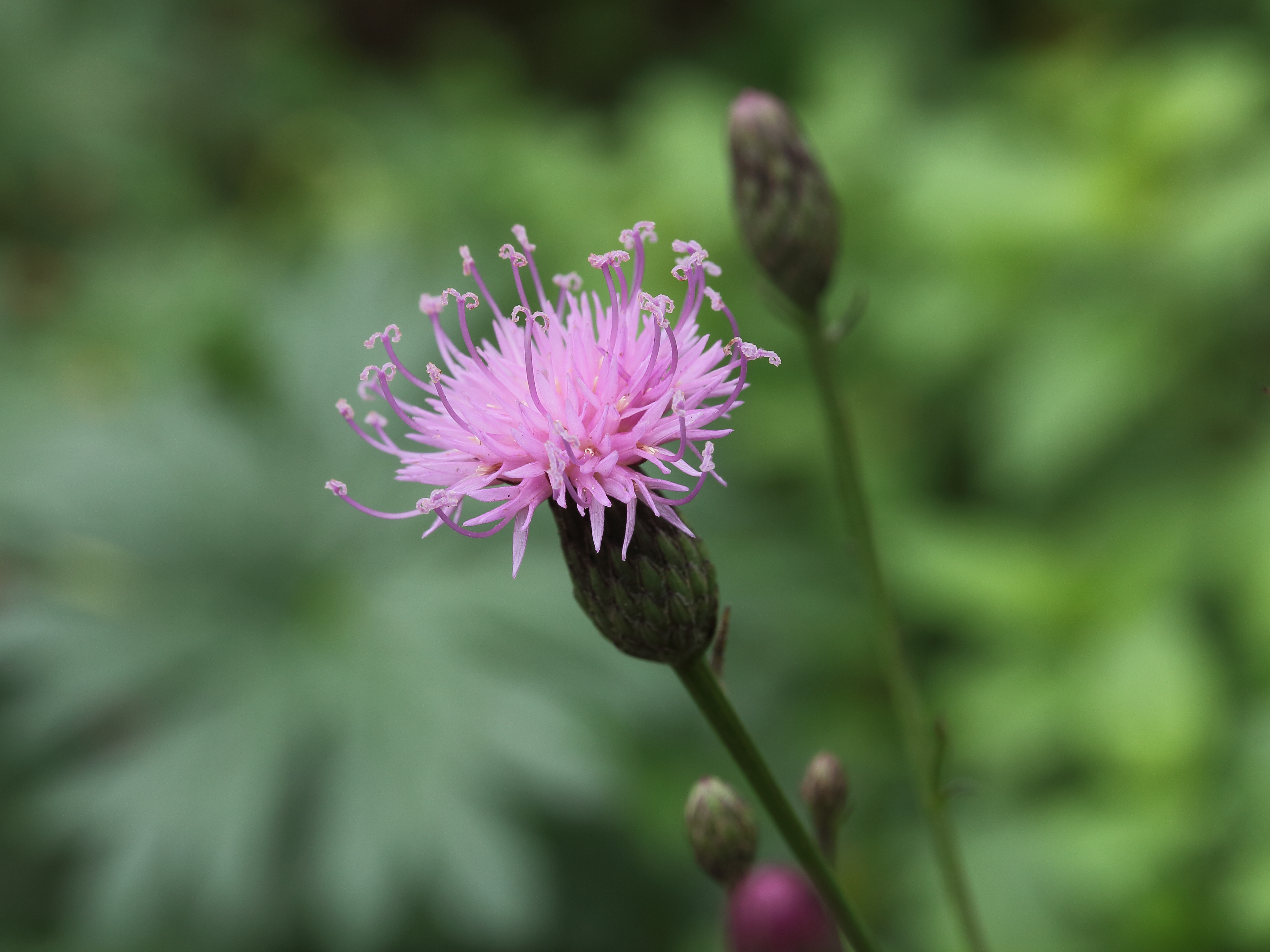 Serratula seoanei, blade